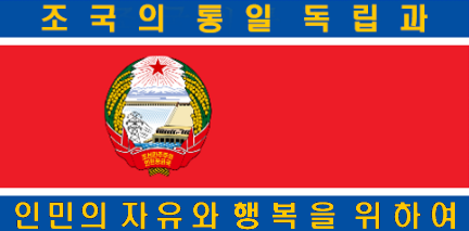 Flag of the Korean People's Army, with no fringe.